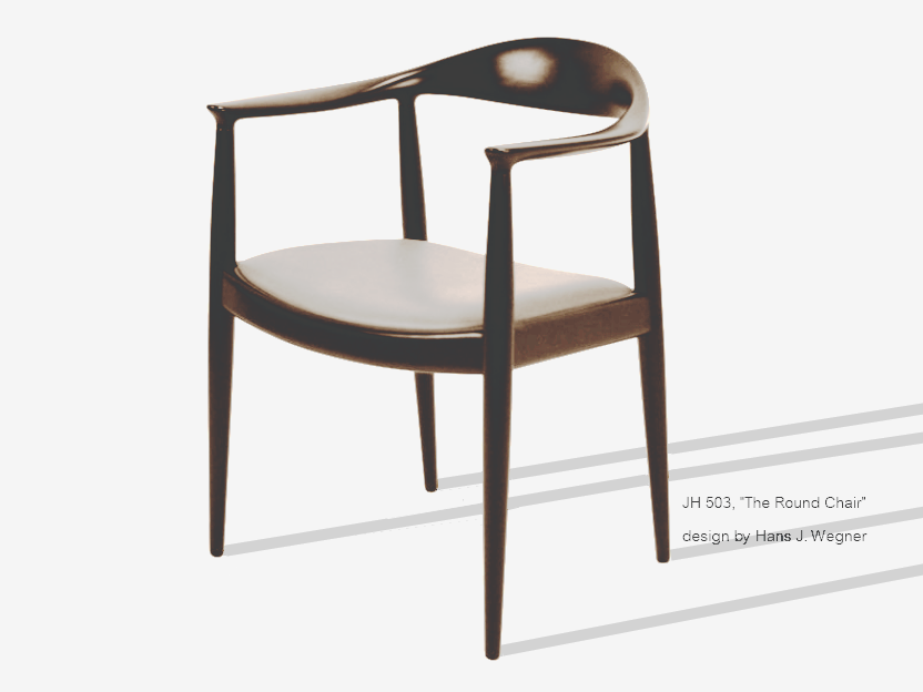 Chair JH503, The Round Chair, with leather upholstered seat, 1950. Design Hans J. Wegner (i.c.w. Johannes Hansen)